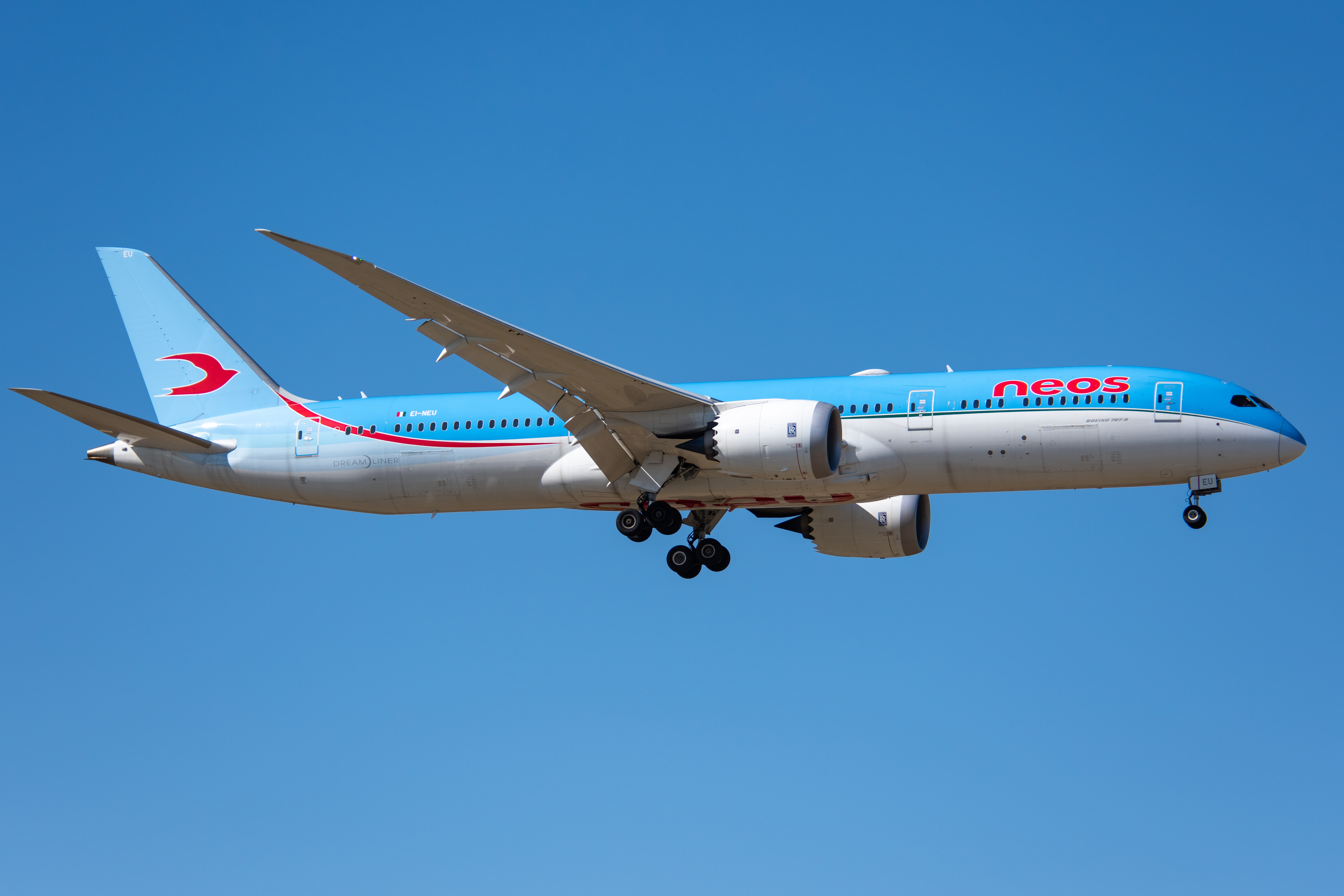 Moonflower 850 from Milan... but why did it come to Beijing? To pick up medical supplies for COVID-19? After all, several airlines use passenger jets to transport cargo during the COVID-19 pandemic.